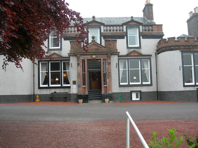 Urr Valley Hotel formerly known as the Ernespie House hotel